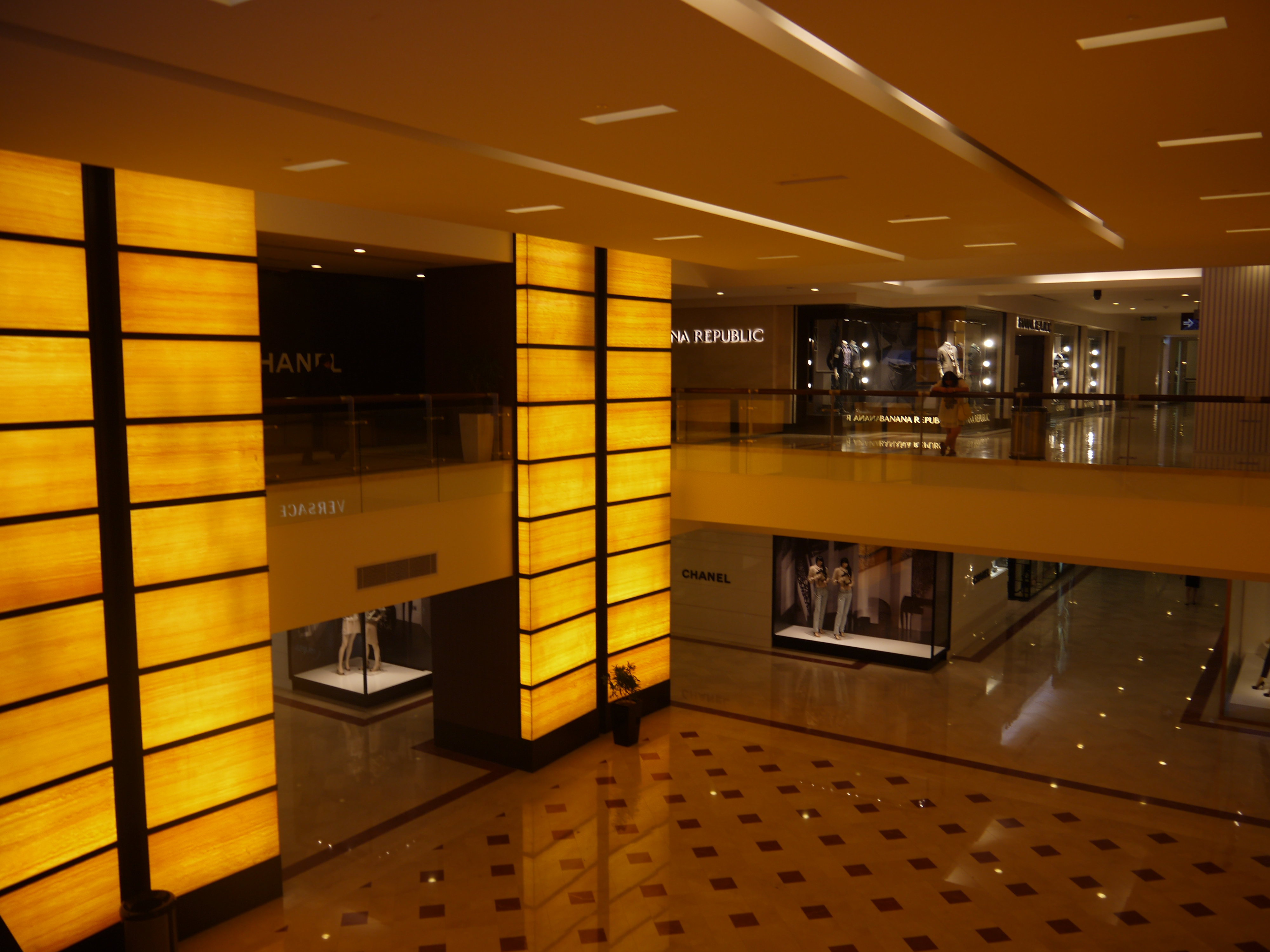 New Zone in Suria KLCC Lot C